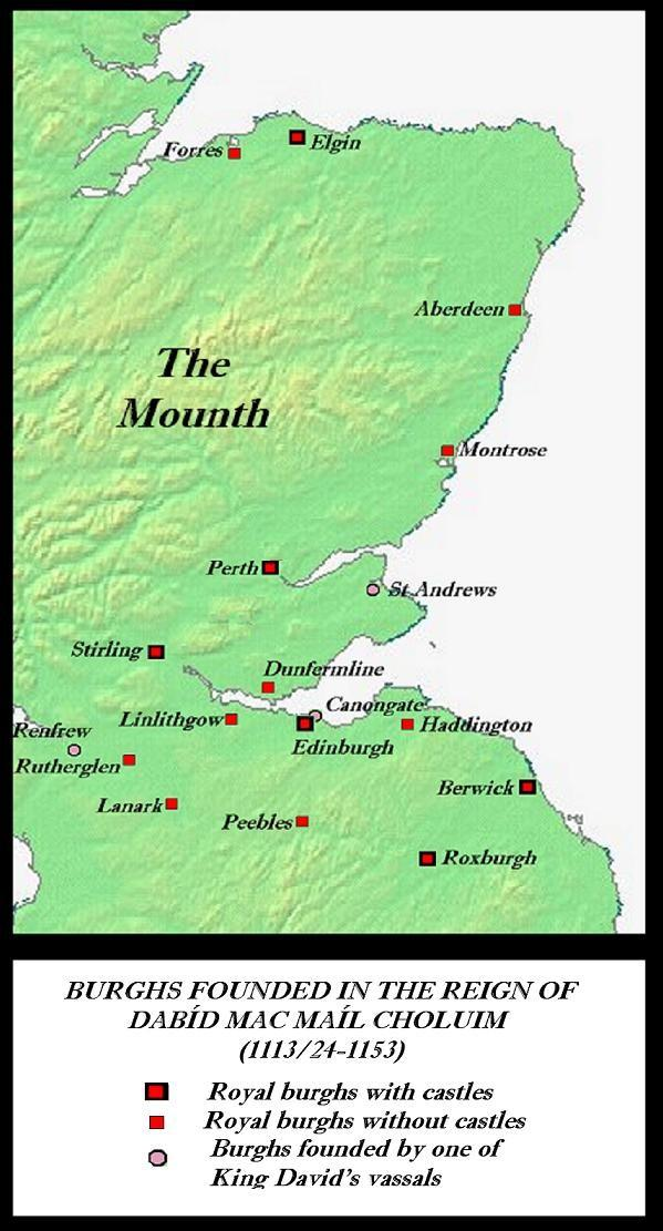 Map of burghs probably founded before the death of David I of Scotland (Dabíd mac Maíl Choluim). Uploading user's own creation.